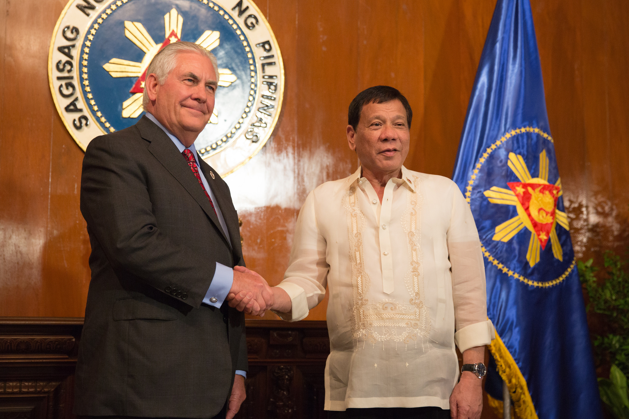 U.S. Secretary of State Rex Tillerson shakes hands with Philippine President Rodrigo Duterte at the Malacañang Palace in Manila on August 7, 2017. [State Department photo/ Public Domain]